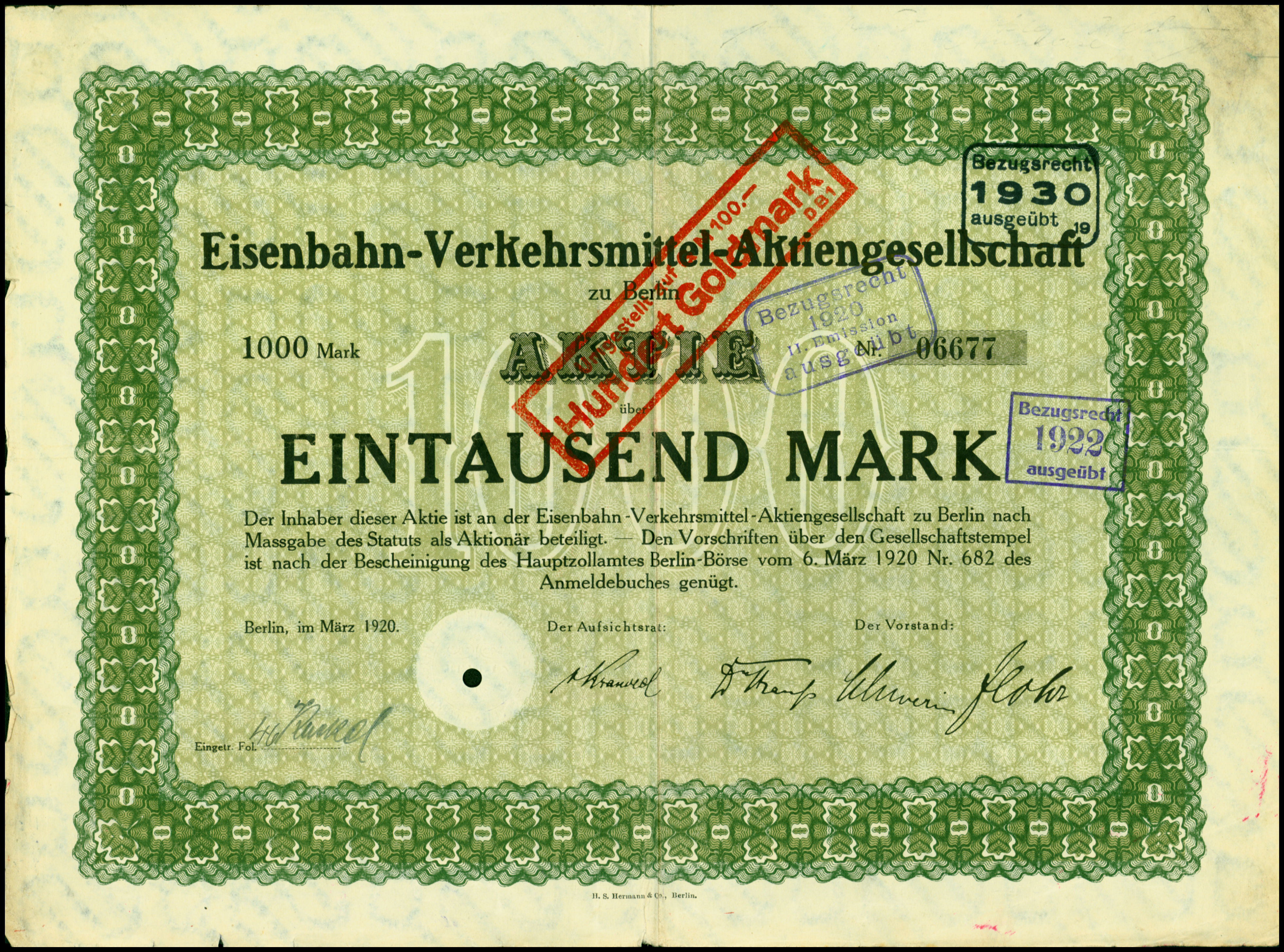 Share of the Eisenbahn-Verkehrsmittel-AG, issued March 1920